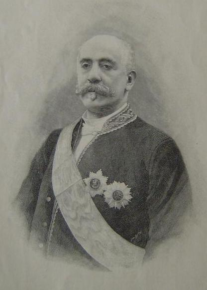 Spanish Politician Pío Gullón